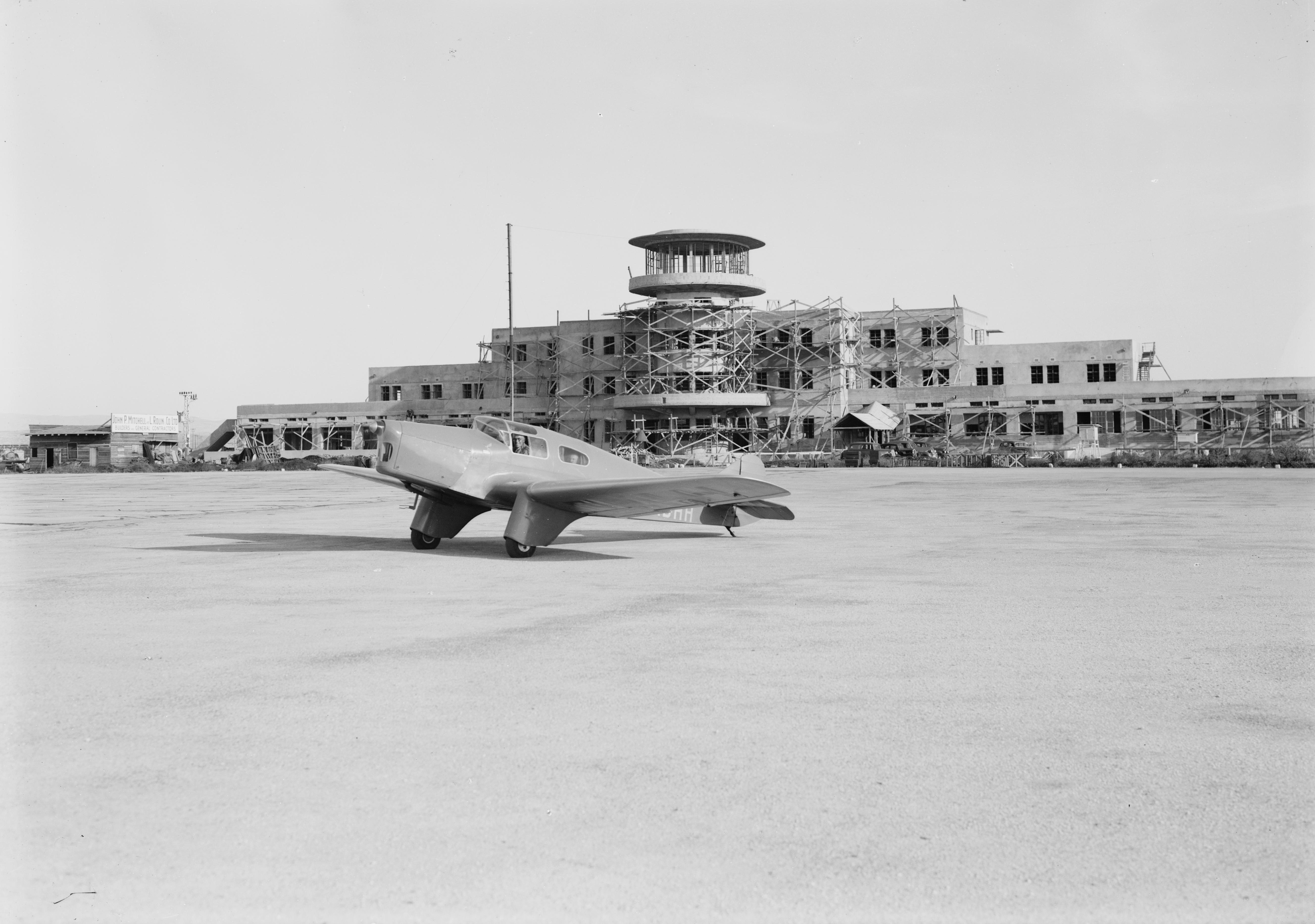 Lydda Airport. Airport building in construction.